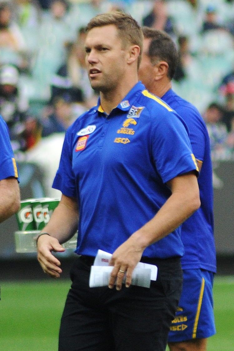 Sam Mitchell during the AFL round five match between Carlton and West Coast on 21 April 2018 at the Melbourne Cricket Ground in Melbourne, Victoria.